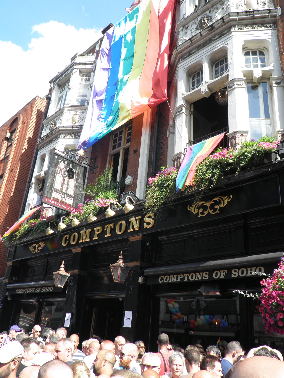 Comptons Of Soho, 53 Old Compton Street, London. Photographed at London Pride.